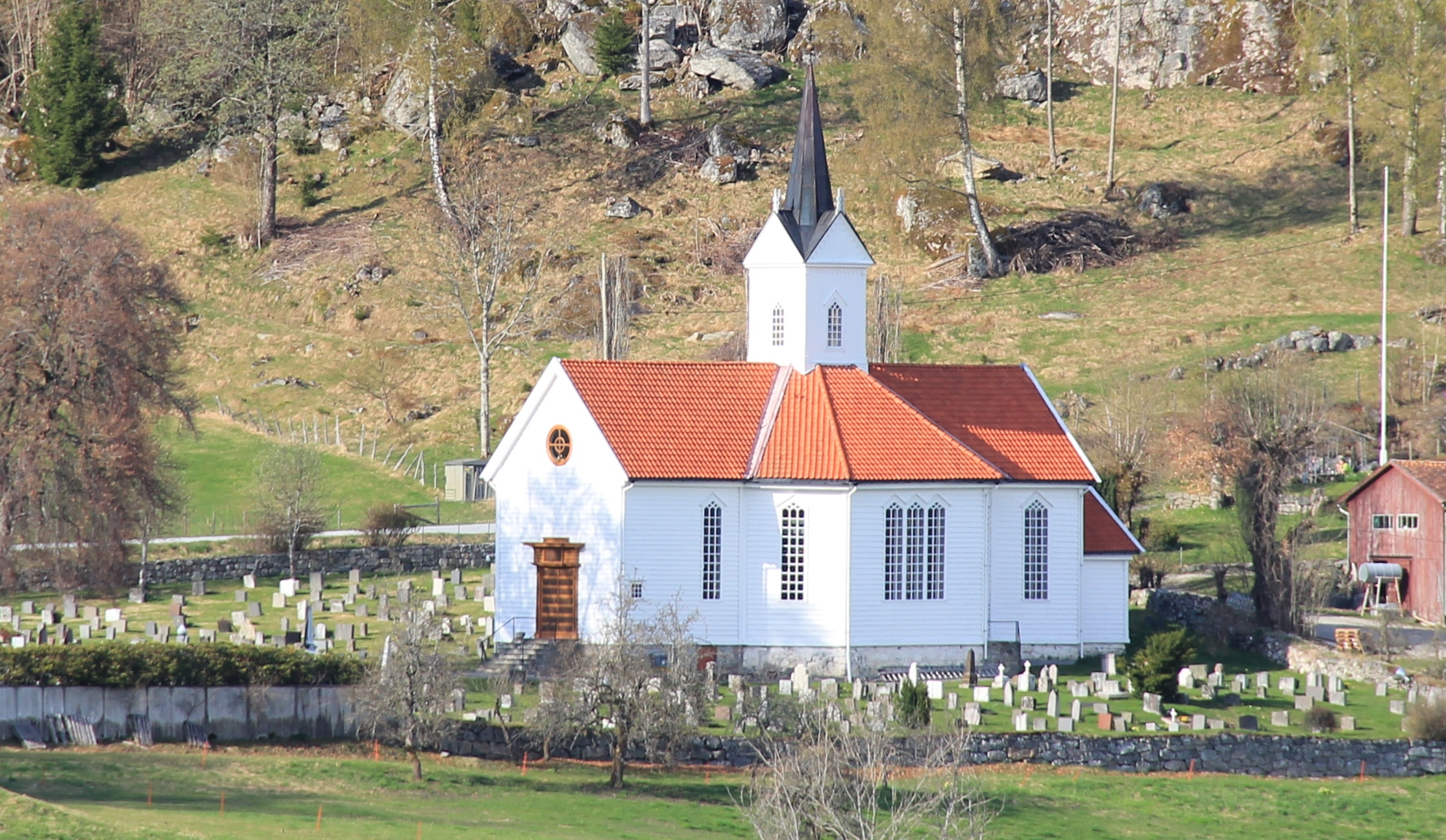 Tjugum kirke